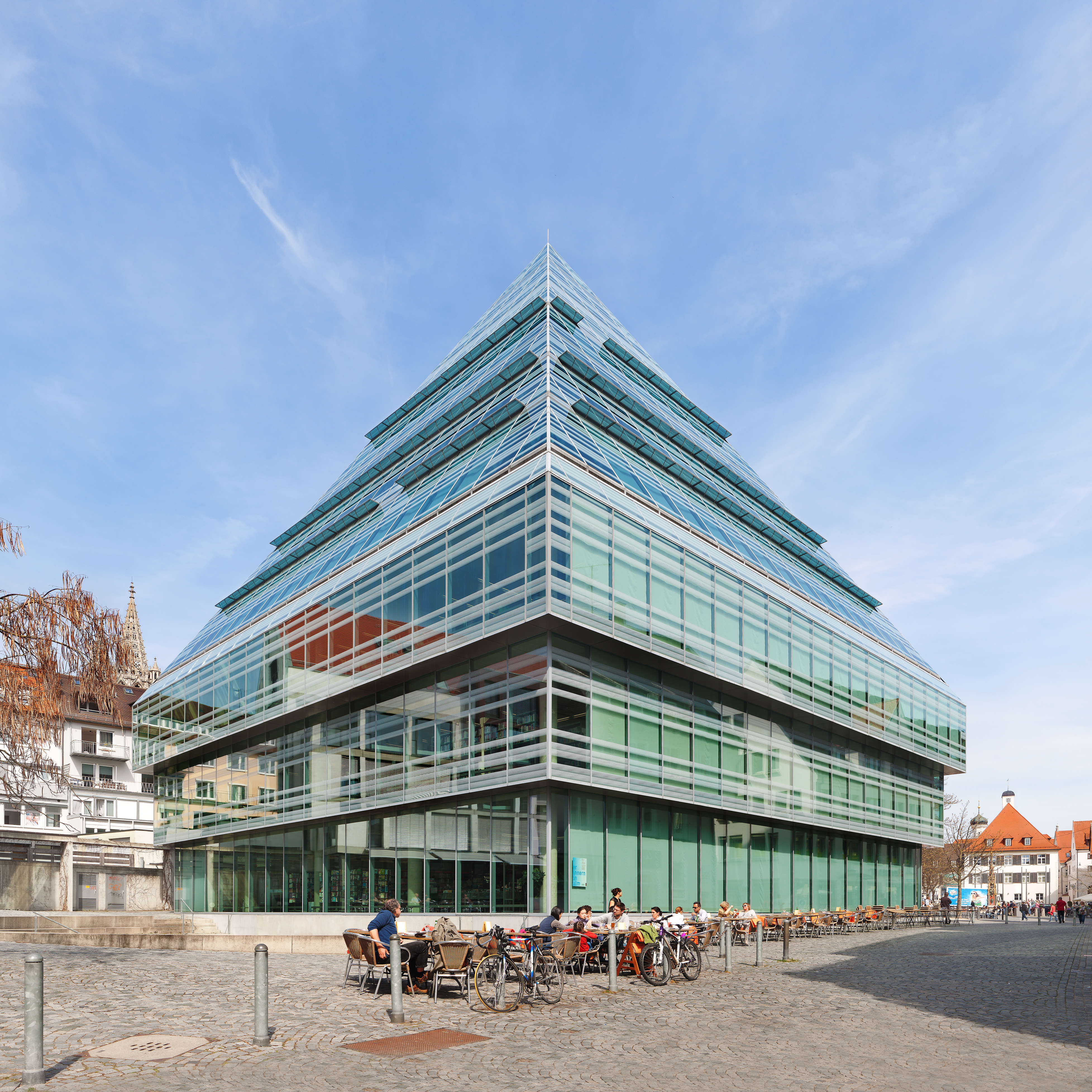 City library (central library) in Ulm.